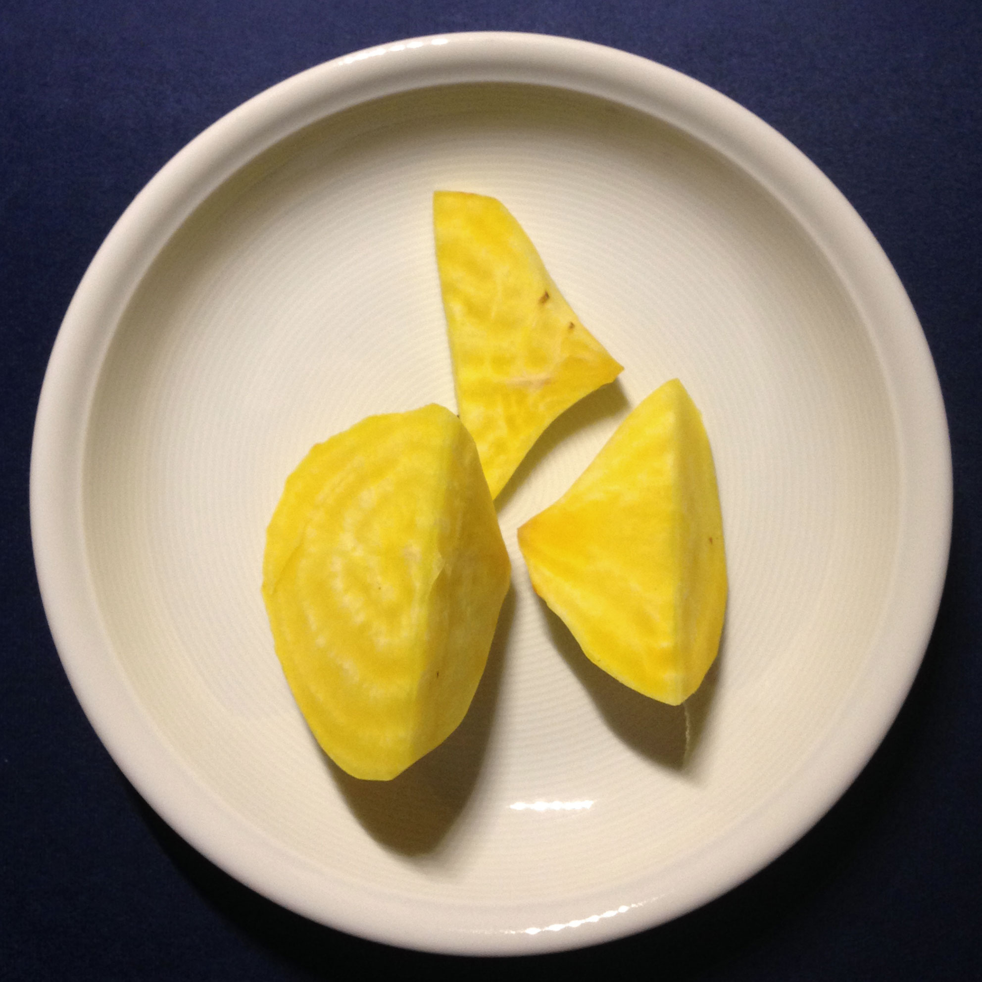 Yellow beetroot, peeled and sliced.